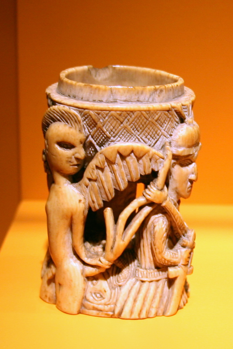 Saltcellar, Benin kingdom, Bini-Portuguese style, Edo peoples, Nigeria, 16th century, Ivory Carved for export to Europe, saltcellars originally consisted of two vertically linked spherical containers and served more as an indicator of status than a functional container. This piece is missing its lid and lower section. The figures on the bowl depict Portuguese men, identifiable by their costumes, beaklike noses and straight hair. The most unusual features-two nude, adult male winged figures-are not typical of European angels or of any African figure, suggesting that the European model was not completely assimilated. The use of surface ornament and size to indicate relative importance are in keeping with Benin court art tradition, although the result here is notably different in style from traditional Benin figures. (National Museum of African Art)